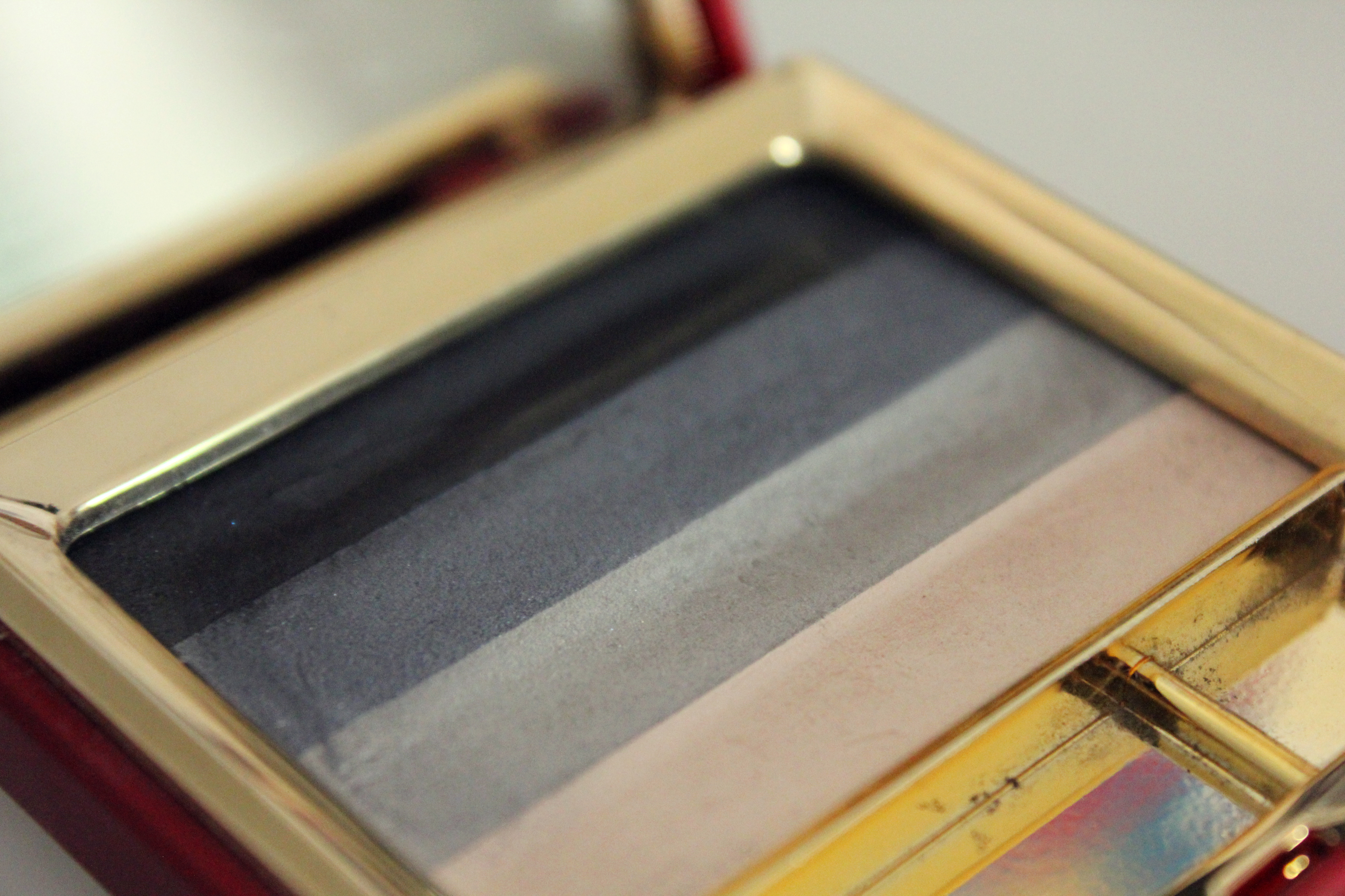 powder eyeshadow